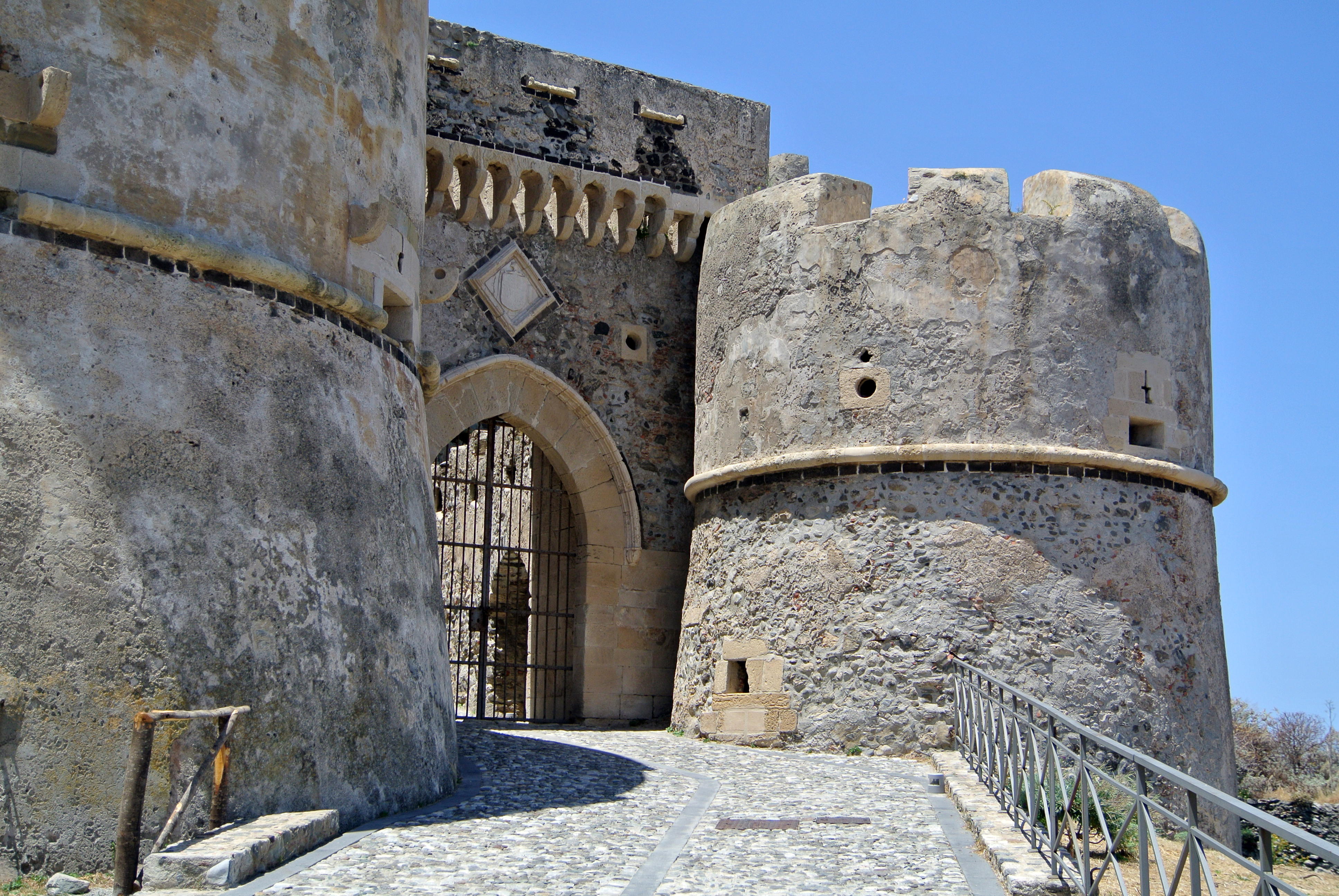 Milazzo Castle, Sicily.